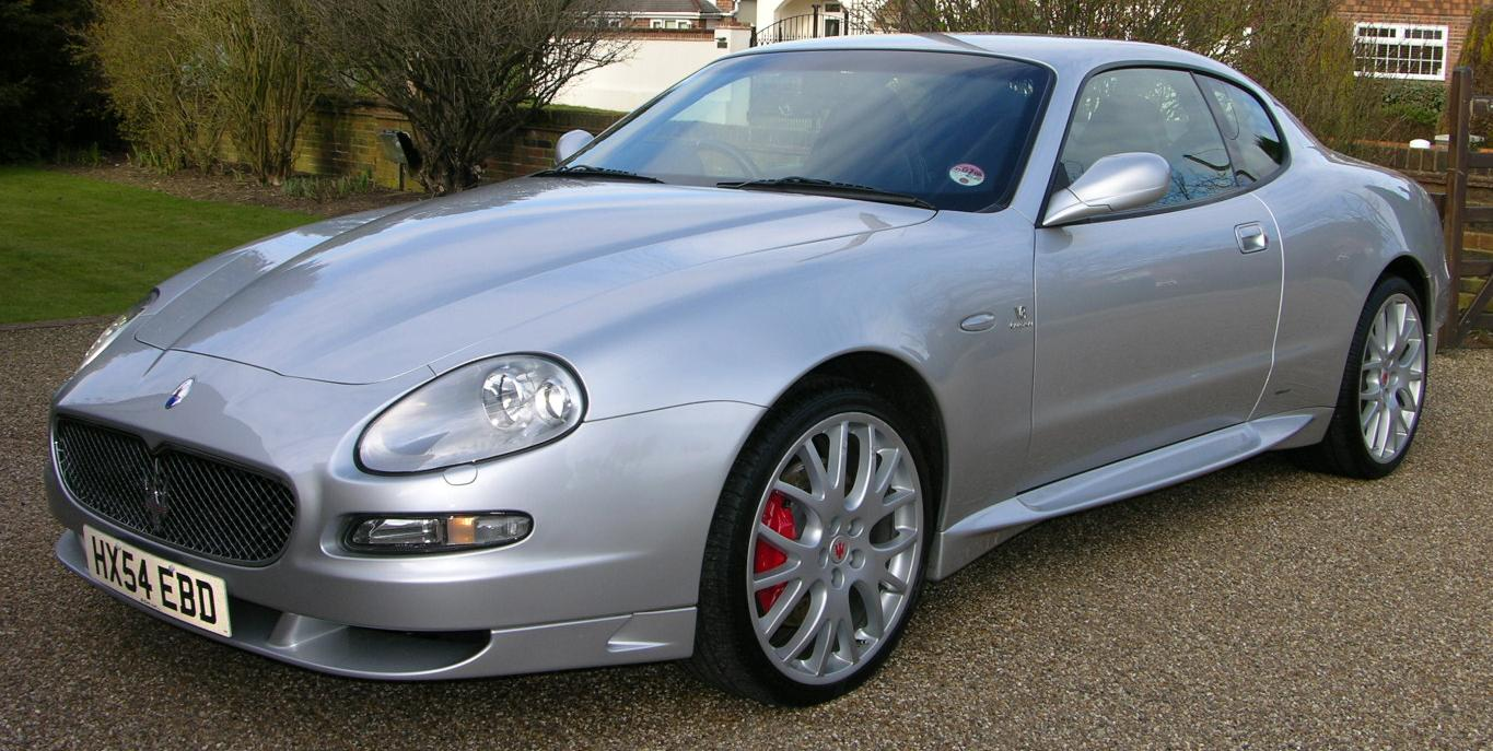 Maserati 4200 Coupe GranSport